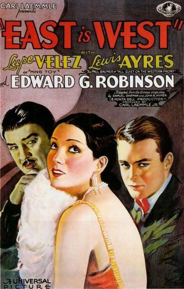 Poster promocional de la película Americana East is West (1930).